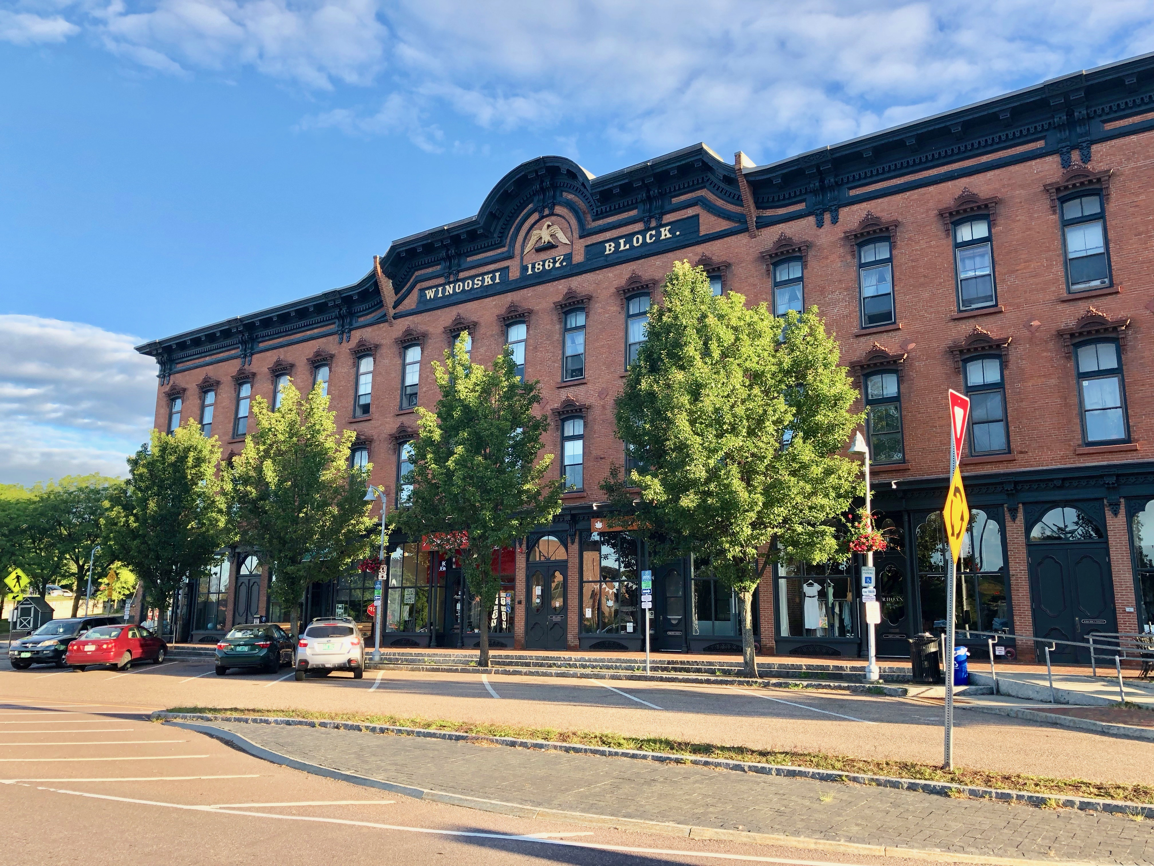 The Winooski Block (1867) in the center of the city of Winooski, Vermont